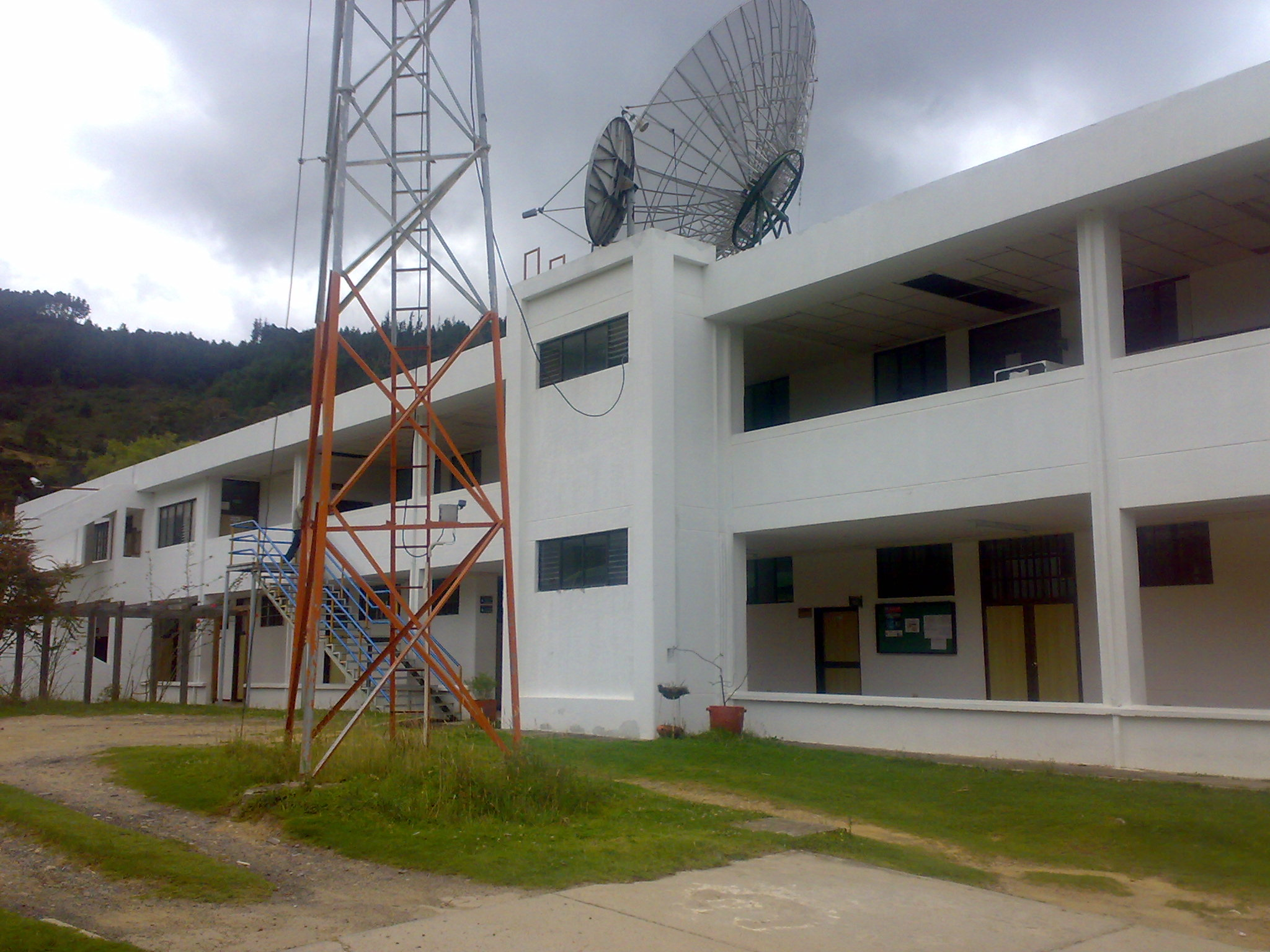 University de Pamplona - Padre Enrique Rochereaux Building